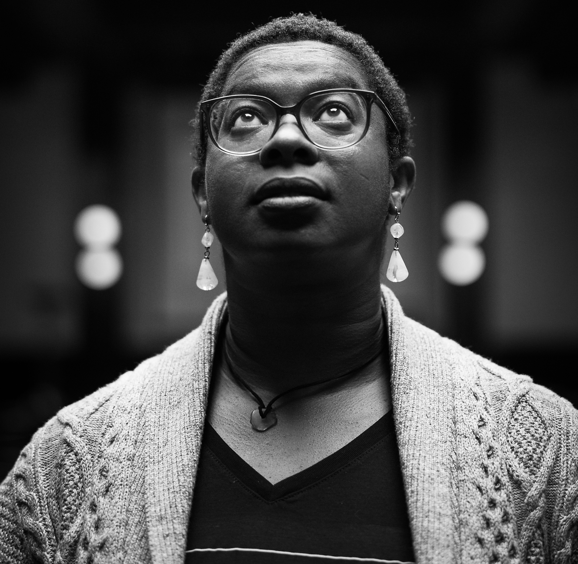 "2018/03 - Ashley C. Ford - Courage." At a CreativeMornings/NewYork event where Ford was the speaker. Photo by Paul Jun (Flickr user @pauljunbear).